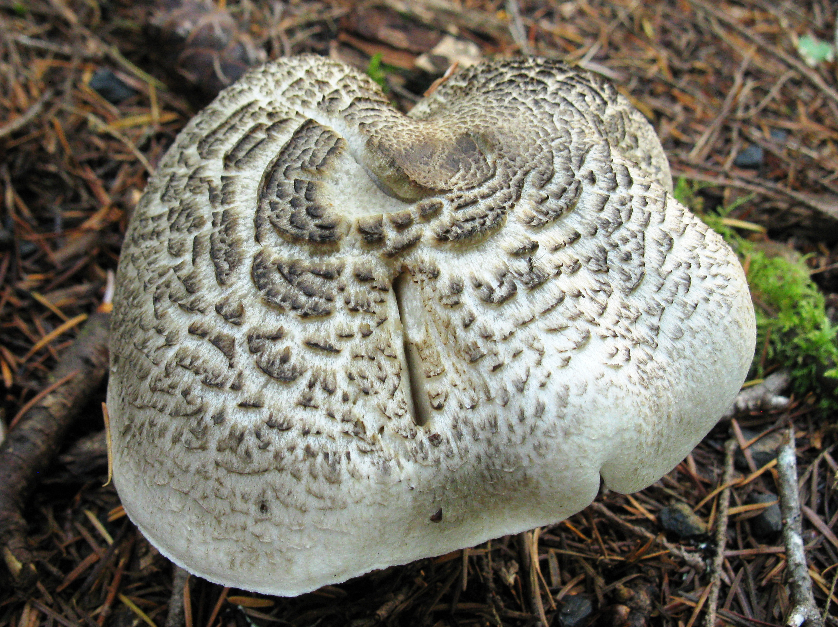 A fruit body of the agaric fungus Tricholoma pardinum (Pers.) Quél. Specimen photographed in Southeastern Gifford Pinchot National Forest, Washington, USA. Original image from Mushroom Observer was cropped slightly by uploader.